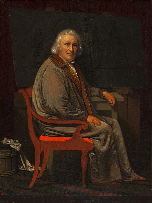 Portrait of Bertel Thorvaldsen in his studio, painted by Johan Vilhelm Gertner